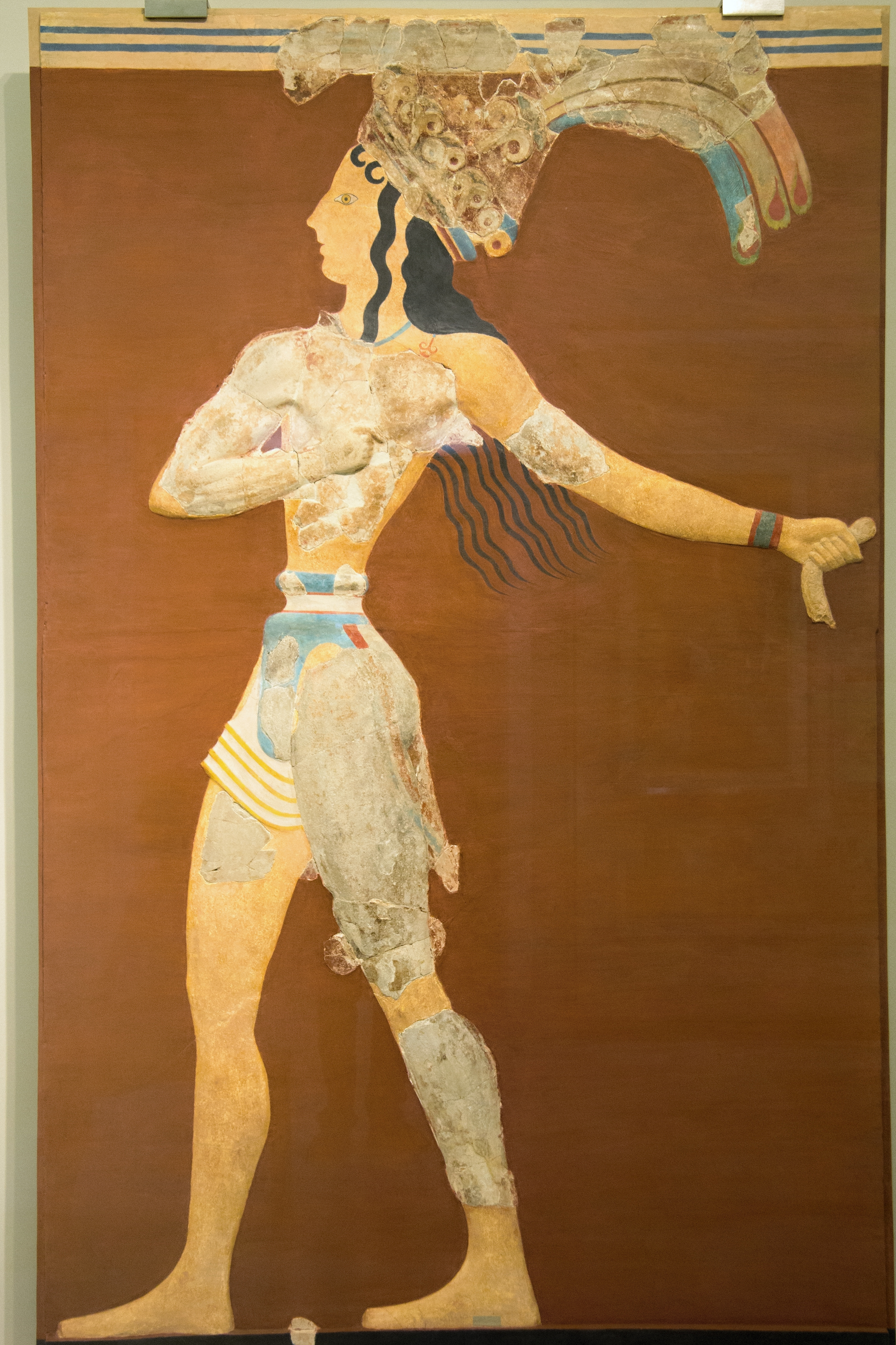 The "Prince of the Lilies" was part of a larger mural composition in high-relief. Large Minoan fresco from Knossos, ca 1550 BC. Archaeological Museum of Heraklion.